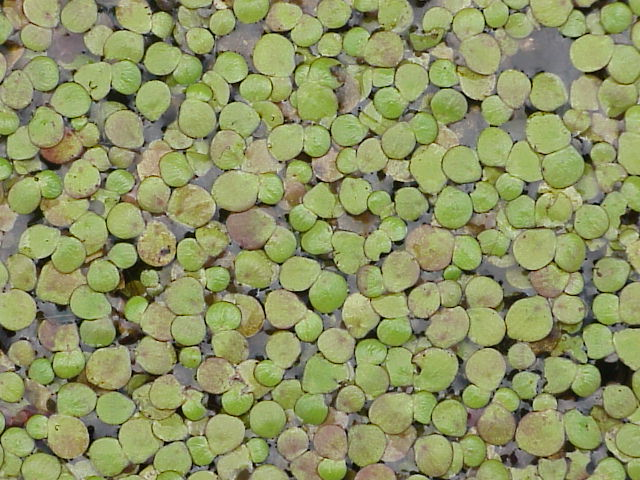 Species: Spirodela polyrhiza Family: Araceae Image No. 1